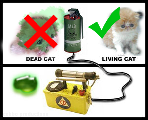 Cat problems? Simple solution: Geiger counter, cyanide, nuclear nugget cat treats and, of course, a cat.